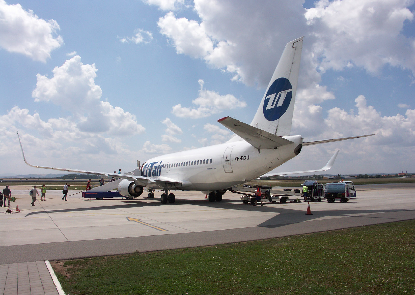 UTair Boeing 737 at Brno Airport